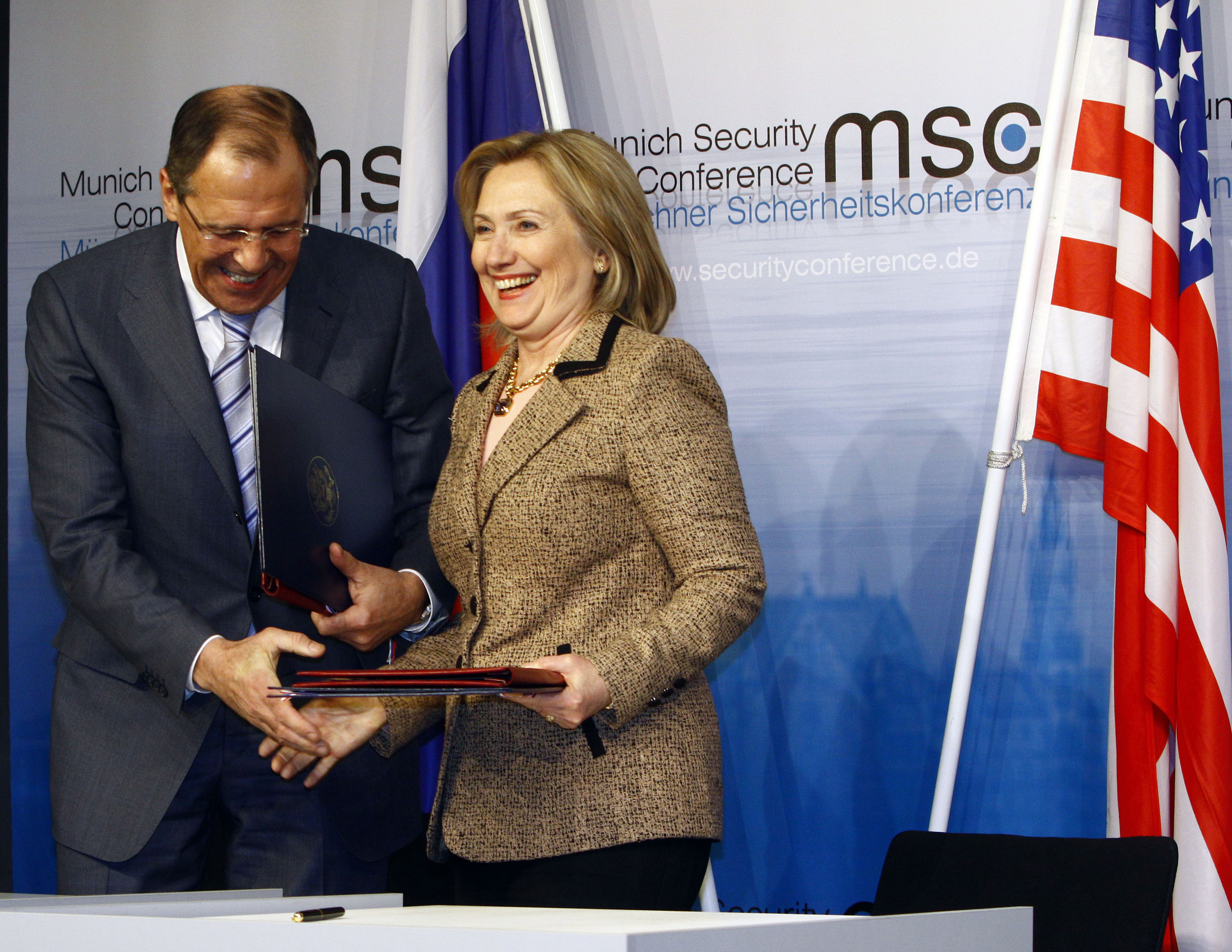 47th Munich Security Conference 2011: Sergey V. Lavrov (le), Minister of Foreighn Affairs, Russian Federation and Hillary Clinton (ri), Secretary of State, USA.